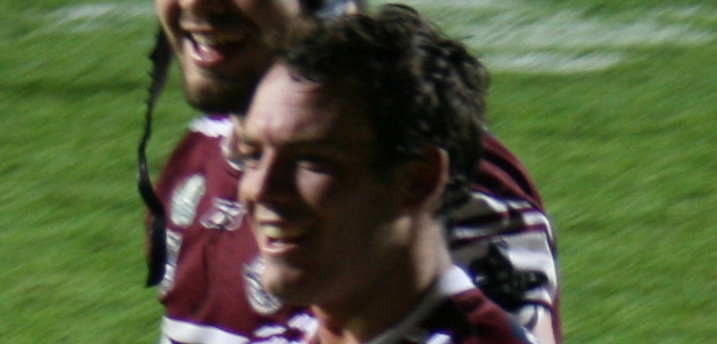 pic of manly players